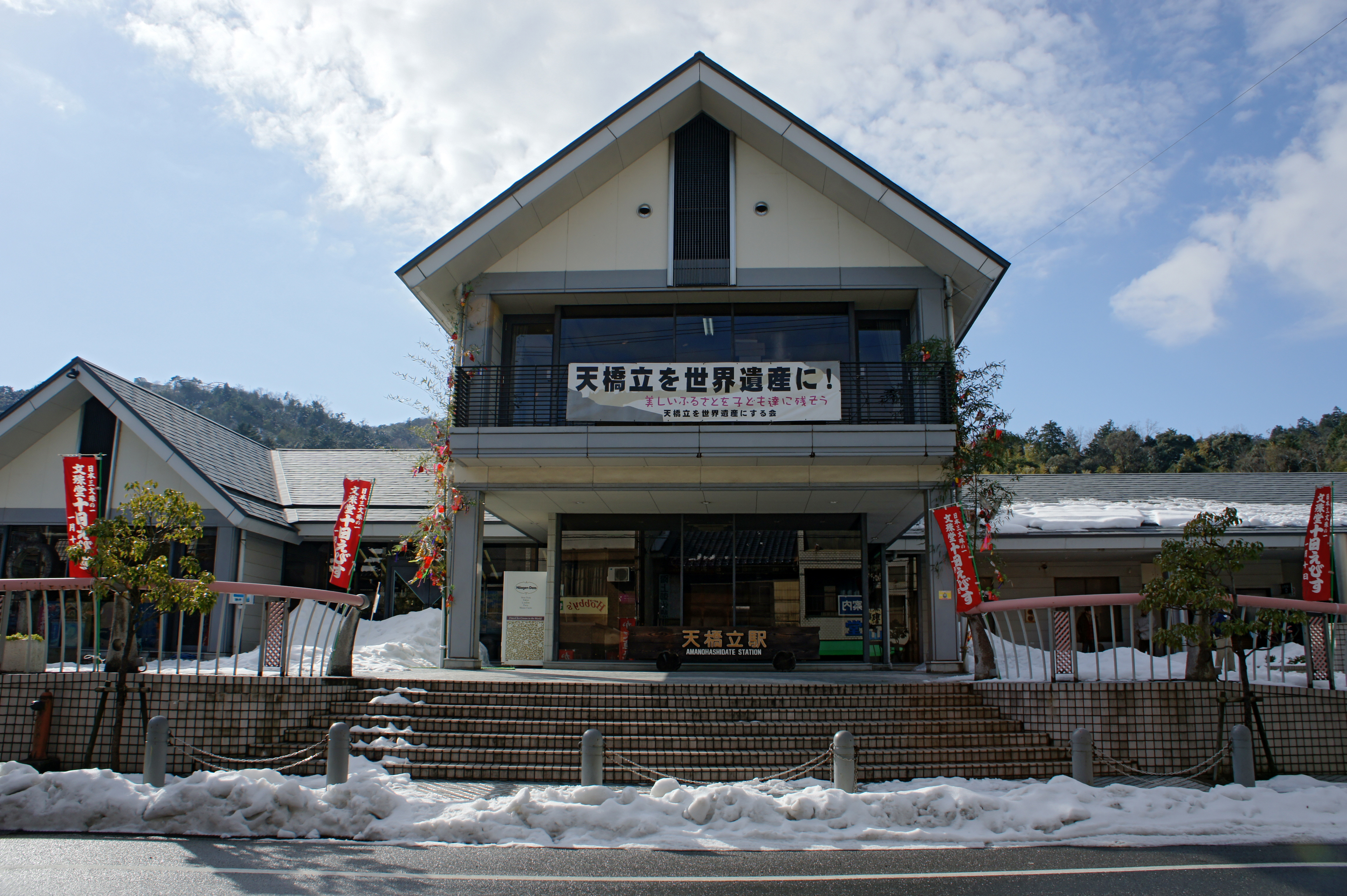 Amanohashidate Station in Miyazu, Kyoto prefecture, Japan.